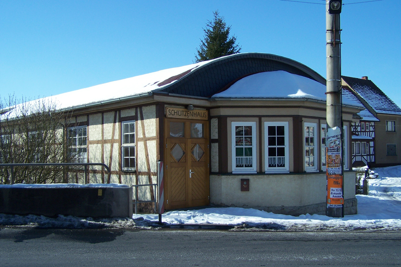 The former clubhouse Schützenhaus in Waldfisch.